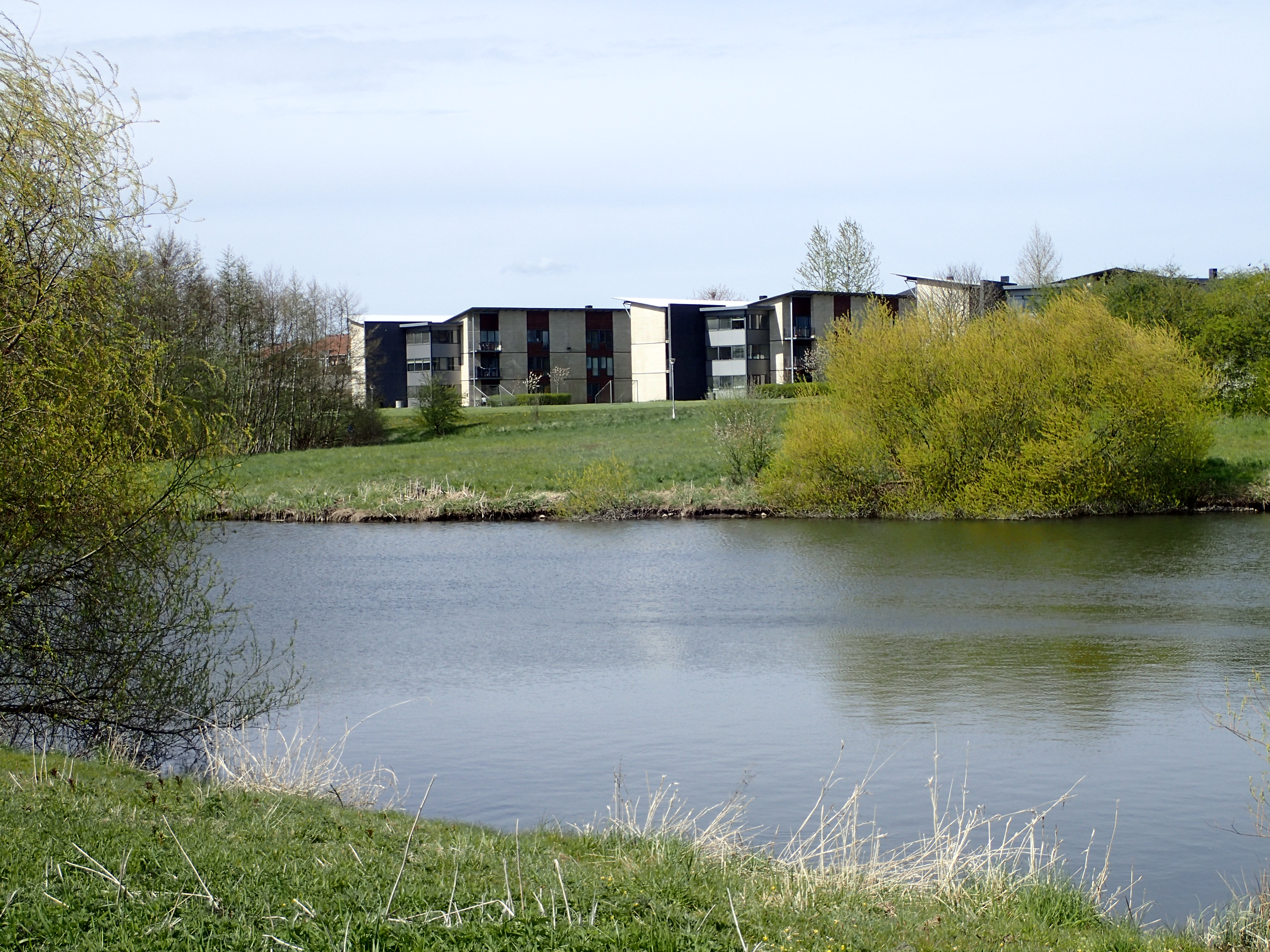 Én af de tre søer på engen Holmstrup Mark ved Hasle Bakker i Skjoldhøjkilen. Udsigt til Bronzealdervænget, en gruppe ungdomsboliger under Brabrand Boligforening.